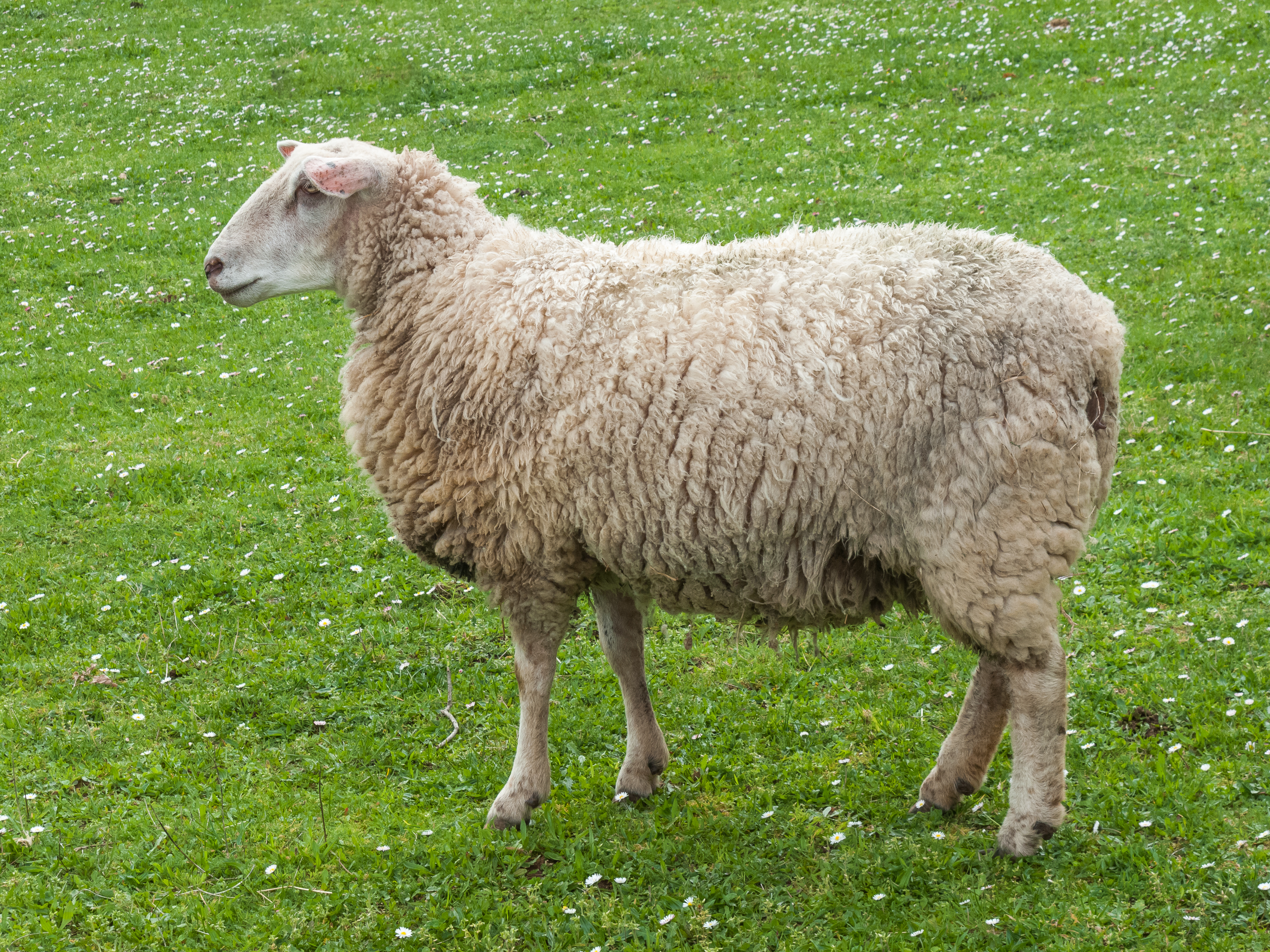 White sheep (ovis aries aries), OrosoGalego: Ovella, Oroso, Galiza